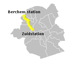 Itinerary of tramway line 83 in Brussels